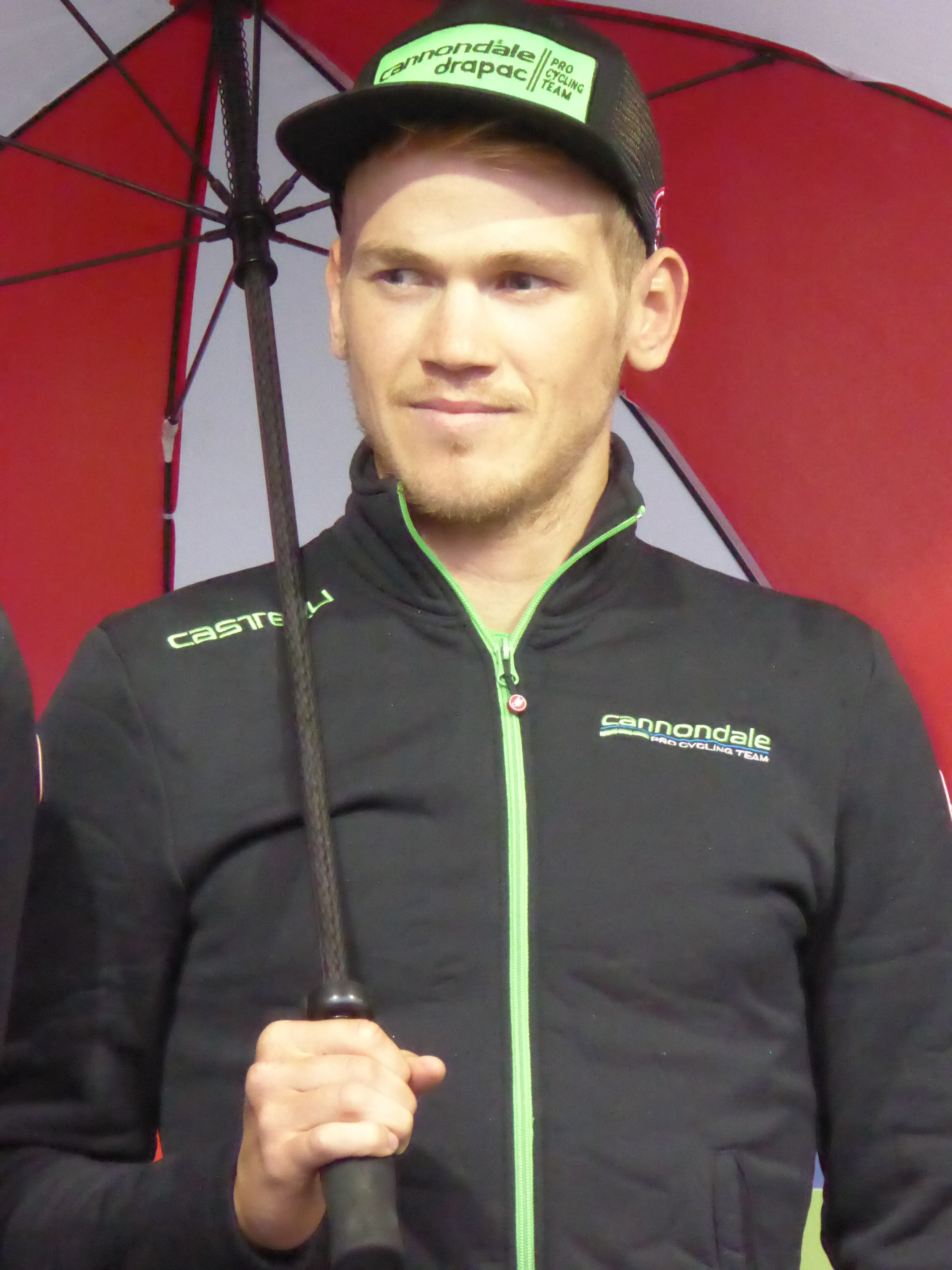 Ruben Zepuntke (Cannondale-Drapac), pictured at the 2016 Tour of Britain team presentation in Glasgow on 3 September 2016.